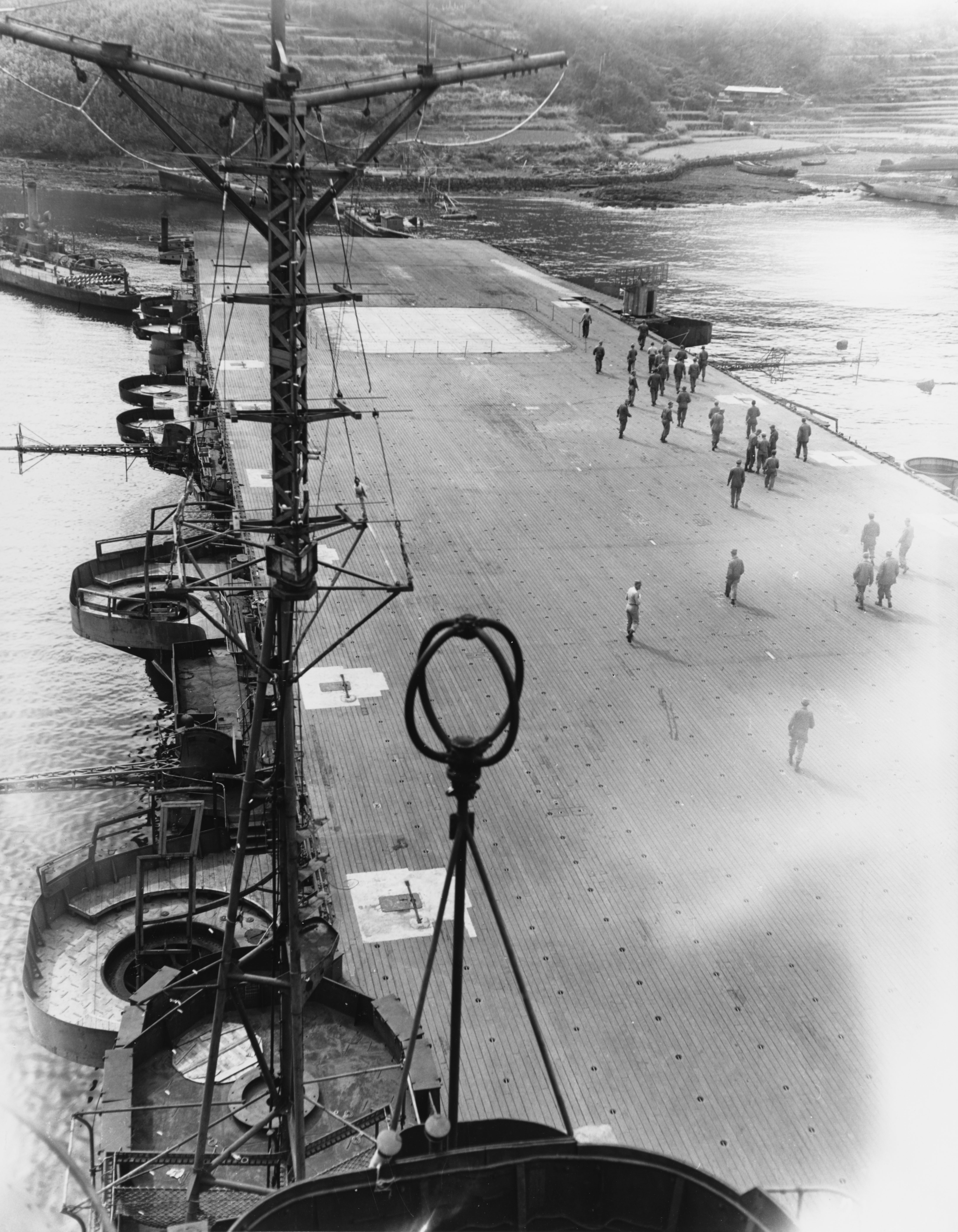 View looking aft from high on the island of the Japanese aircraft carrier Junyō at Sasebo, Japan, 19 October 1945. U.S. Army soldiers of the 32nd Division are on the flight deck. Note the fore-and-aft flight deck planking; the device on the landing signal platform; the Type 3 radar antenna on the mainmast and radio-direction-finder loop in the foreground. Several HA-201 class submarines are on the beach in the distance. The submarine directly off Junyō's stern is HA-230.